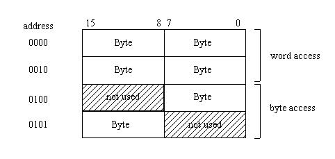 Standard data bus byte distribution